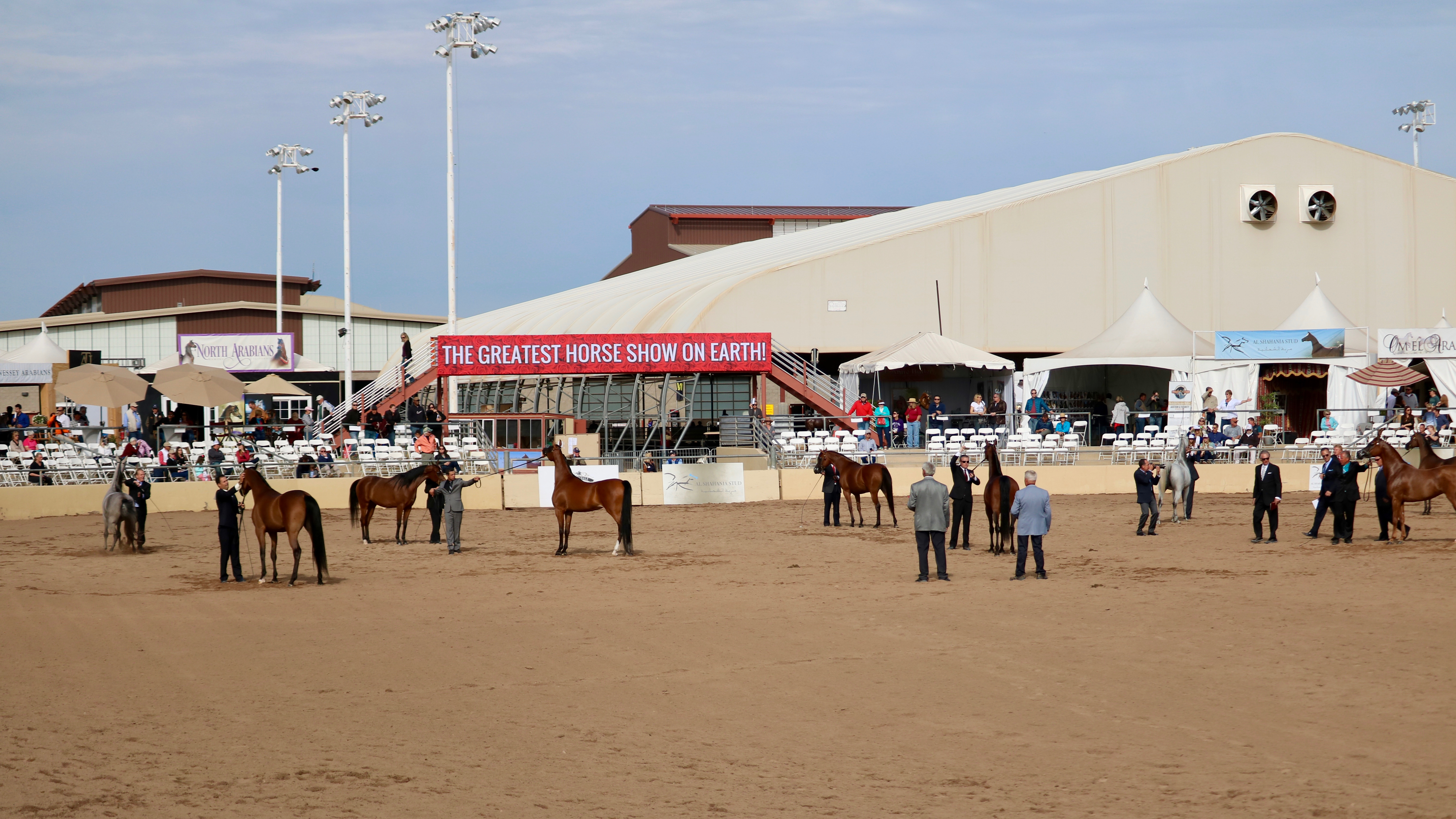 Halter class 2017 Scottsdale Arabian Horse Show, Scottsdale, Arizona